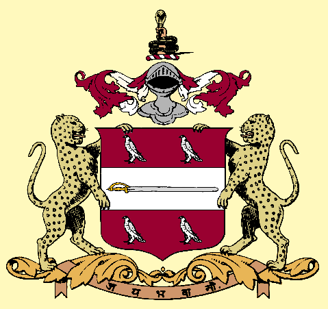 Kolhapur State coat of arms This work is in the public domain in India because its term of copyright has expired. The Indian Copyright Act applies in India, to works first published in India. According to The Indian Copyright Act, 1957 (Chapter V Section 25), Anonymous works, photographs, cinematographic works, sound recordings, government works, and works of corporate authorship or of international organizations enter the public domain 60 years after the date on which they were first published, counted from the beginning of the following calendar year (ie. as of 2020, works published prior to 1 January 1960 are considered public domain). Posthumous works (other than those above) enter the public domain after 60 years from publication date. Any other kind of work enters the public domain 60 years after the author's death. Text of laws, judicial opinions, and other government reports are free from copyright. Photographs created before 1960 are in the public domain 50 years after creation, as per the Copyright Act 1911. This file may not be in the public domain outside India. The creator and year of publication are essential information and must be provided. See Wikipedia:Public domain and Wikipedia:Copyrights for more details. This image shows a flag, a coat of arms, a seal or some other official insignia. The use of such symbols is restricted in many countries. These restrictions are independent of the copyright status.